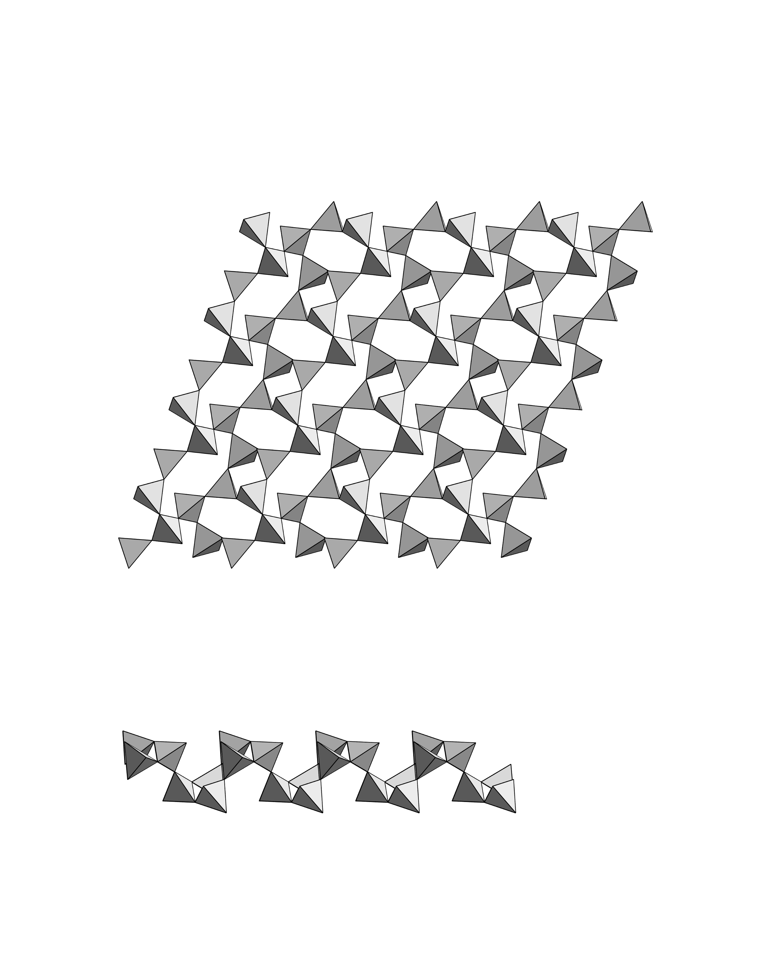 Dalyite silicate sheet Data from: Fleet S. G. (1965): The crystal structure of dalyite, Zeitschrift für Kristallographie 121, pp. 349-368 Calculation of image data: Larry W. Finger, Martin Kroeker, and Brian H. Toby, DRAWxtl, an open-source computer program to produce crystal-structure drawings, J. Applied Crystallography V40, pp. 188-192, 2007 Rendering: POVRAY